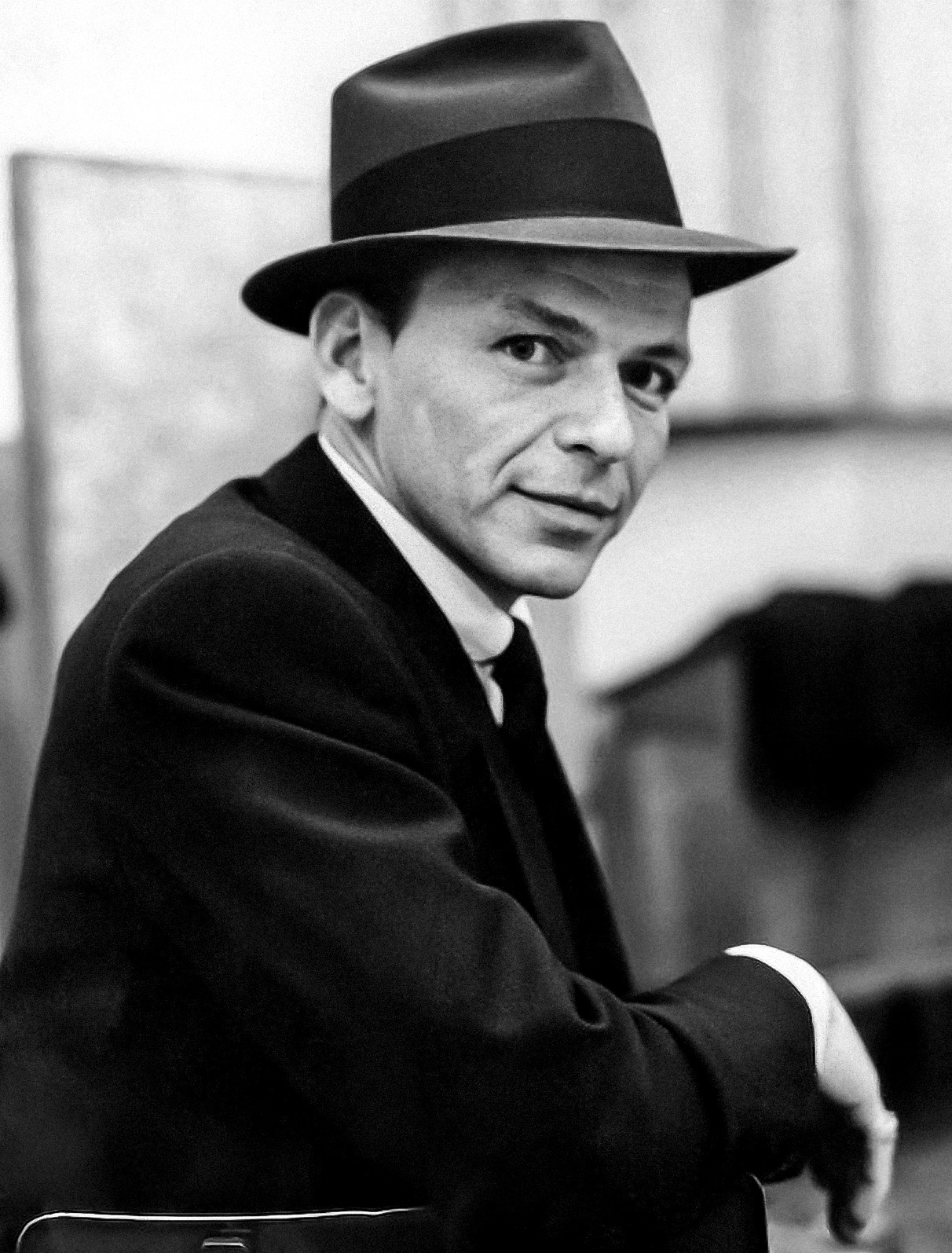 Frank Sinatra in Capitol Studios, circa October 1957, during the recording of Come Fly with Me. A cropped version of the photograph was published on page 15 of the November 28, 1957, issue of the jazz magazine DownBeat (Vol. 24, No. 24). The accompanying story, titled "Sinatra: He's Frank" and written by John Tynan, detailed the entertainer's preparations before the premiere of the second Frank Sinatra Show (1957–58) on ABC. In 1959, United Artists distributed the photograph as a "keybook" publicity photo.